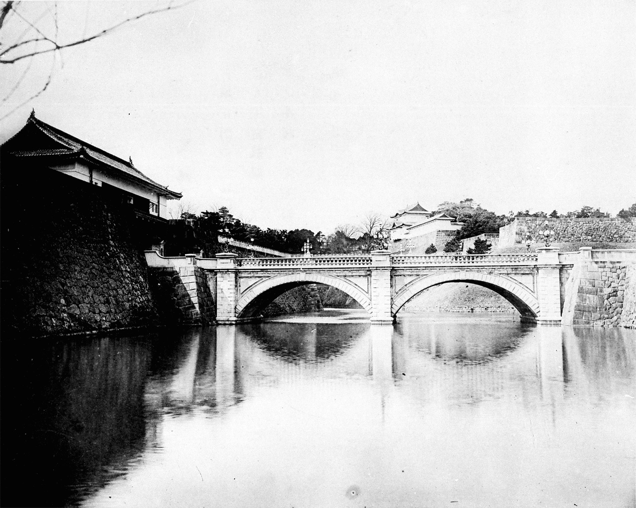 Kokyo Seimon Ishibashi. Address (Meiji Era) Kojimachi-ku, Kyujo. Address (Present) Chiyoda-ku, Chiyoda. Late Edo Period Edo Castle. Present (as of January, 2007) Imperial Palace.